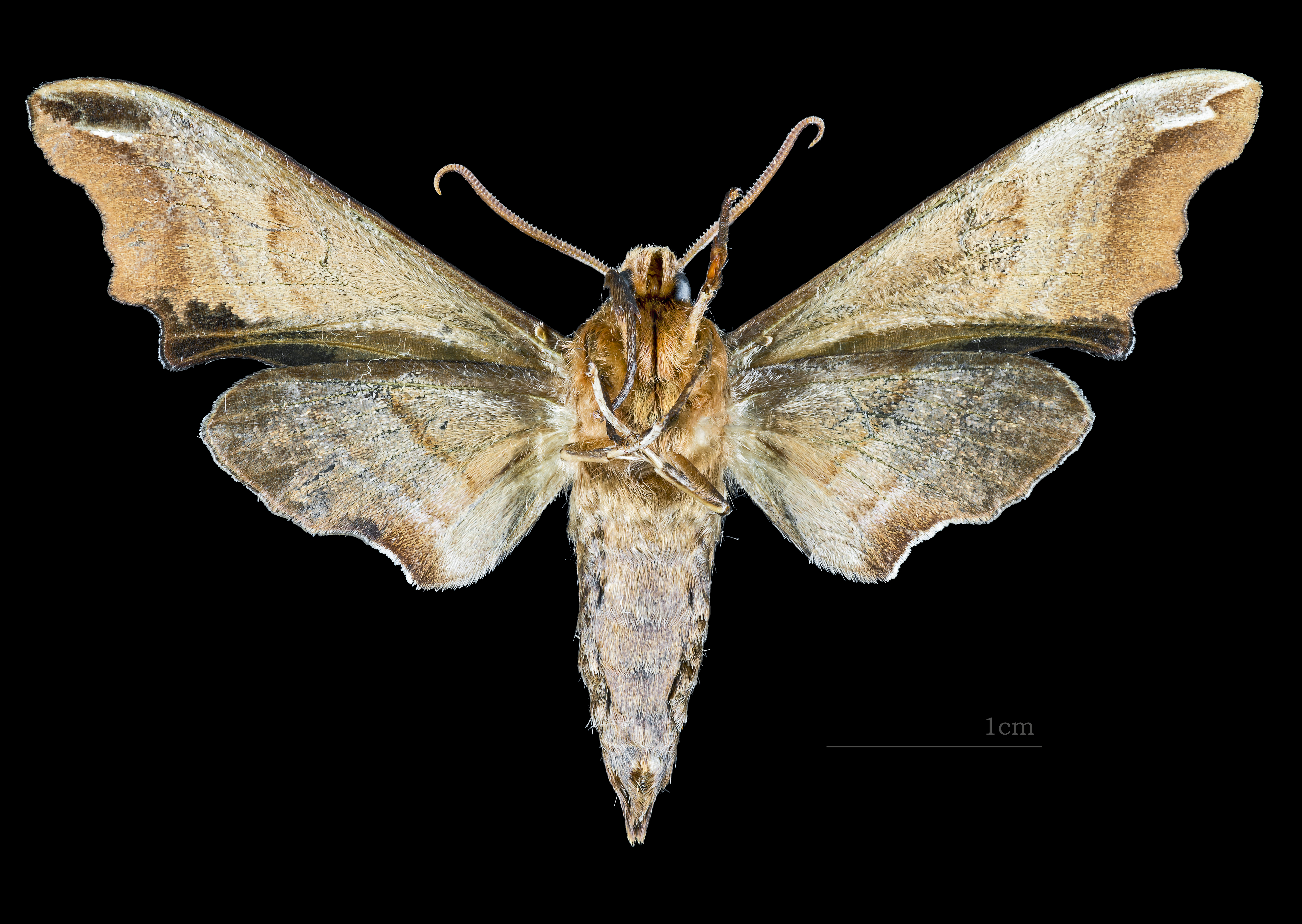 Mimas christophi - △ Ventral side Collection of the Mathematician Laurent Schwartz